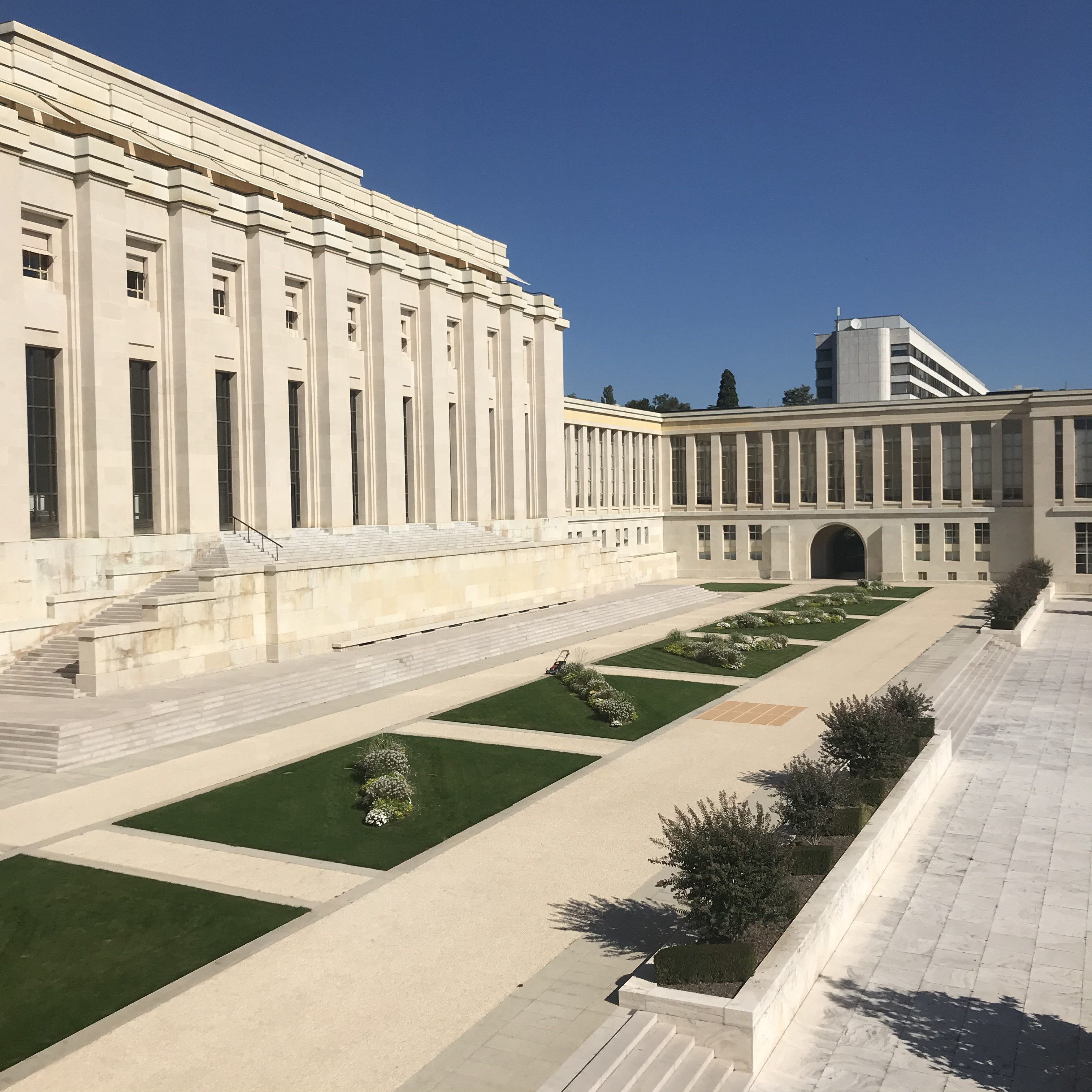 palais des Nations